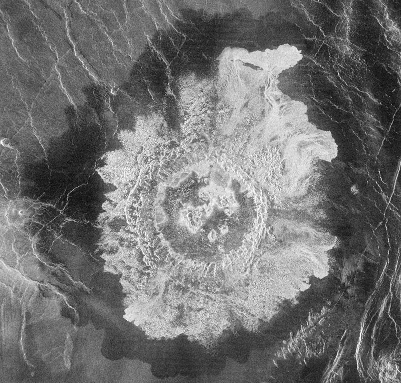 Yablochkina crater on Venus by space probe Magellan (1989-1994)